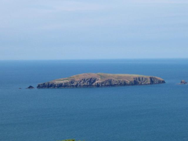 Cardigan Island. Picture taken from Cemaes Head to the SW. Cardigan Island (Welsh: Ynys Aberteifi) is a small, uninhabited island lying north of Cardigan, Wales. Lying in the estuary of the River Teifi, it is known for its colony of fur seals.